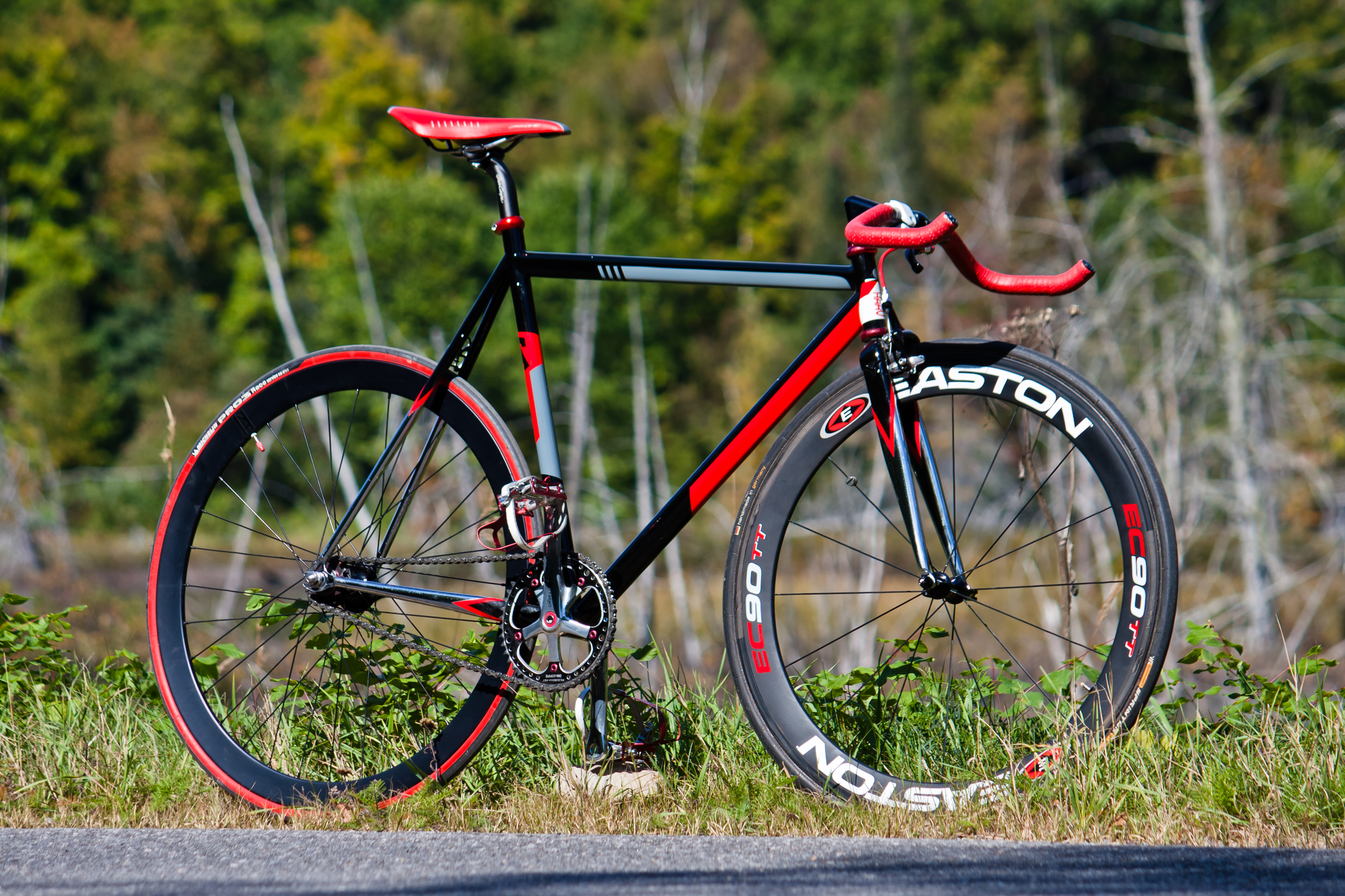 Riding fixed through the hills of Quebec, north of Montreal.